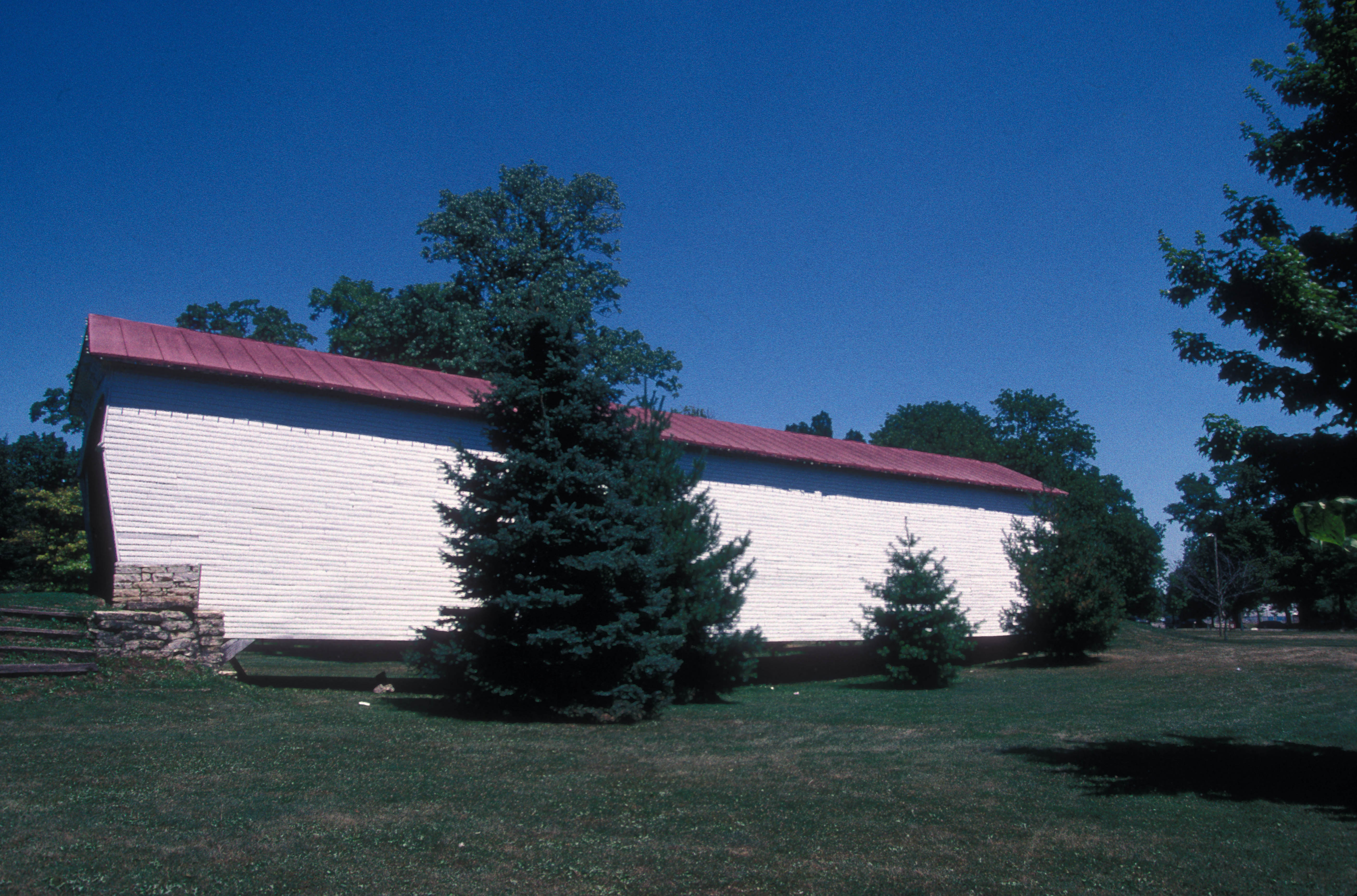 Longwood Covered Bridge 1-span, 92’, 1884 burr over dry land in Roberts Park. It was moved in 1984 to the park in Connersville. It is the original bridge and why it is now listed as former national registry is unknown. The bridge had deteriorated but now looks completely restored.